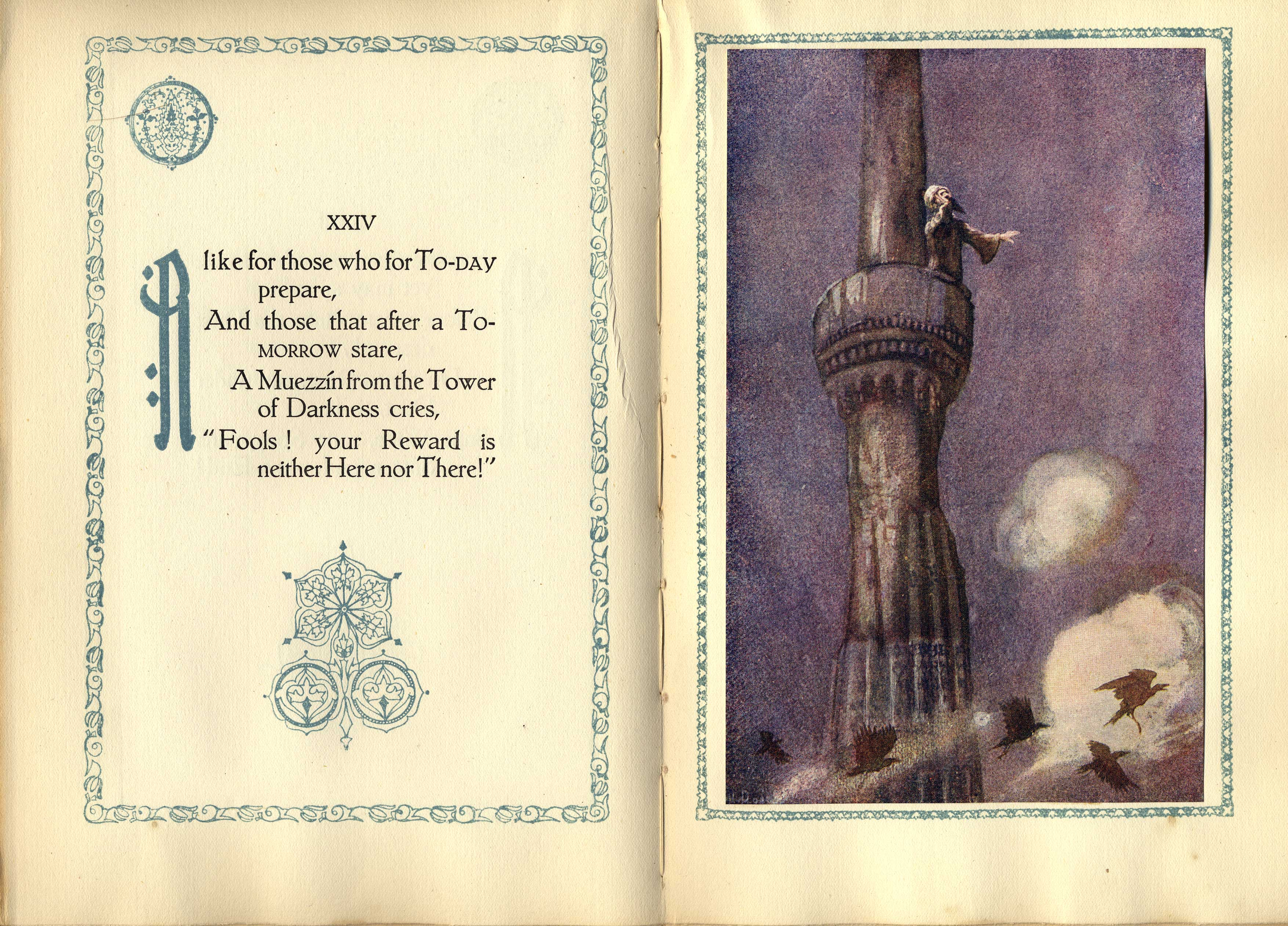 Not sure of the printing date for this edition. All the information I found varied from 1905-1930.